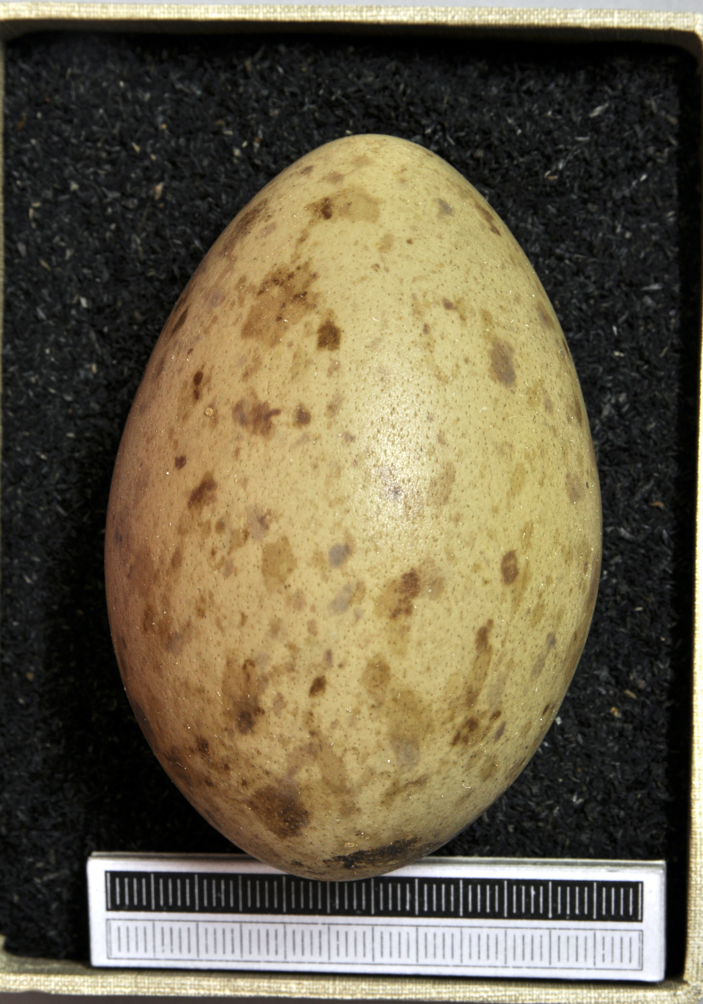 Demoiselle crane Anthropoides virgo , egg, Coll. Museum Wiesbaden